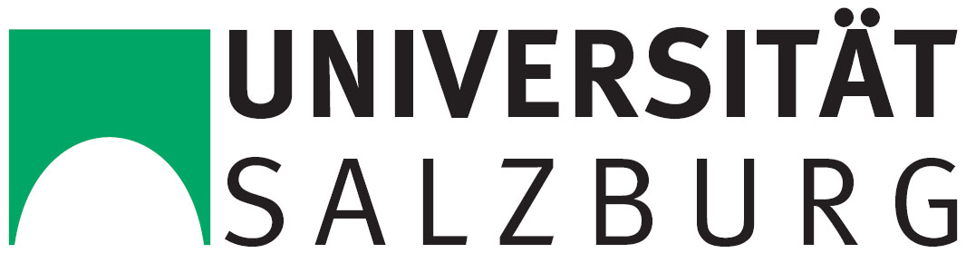 University Emblem